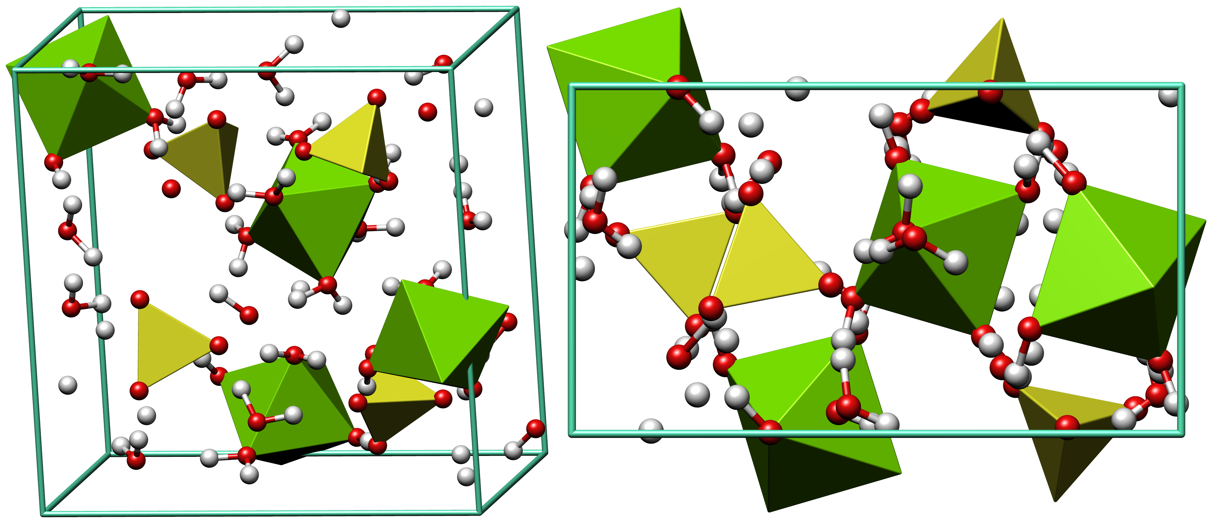 Crystal structure of epsomite - MgSO4·7H2O. Baur W H Colour code: Magnesium, Mg: bright green Sulfur, S: olive Hydrogen, H: white Oxygen, O: red Cell: blue-green